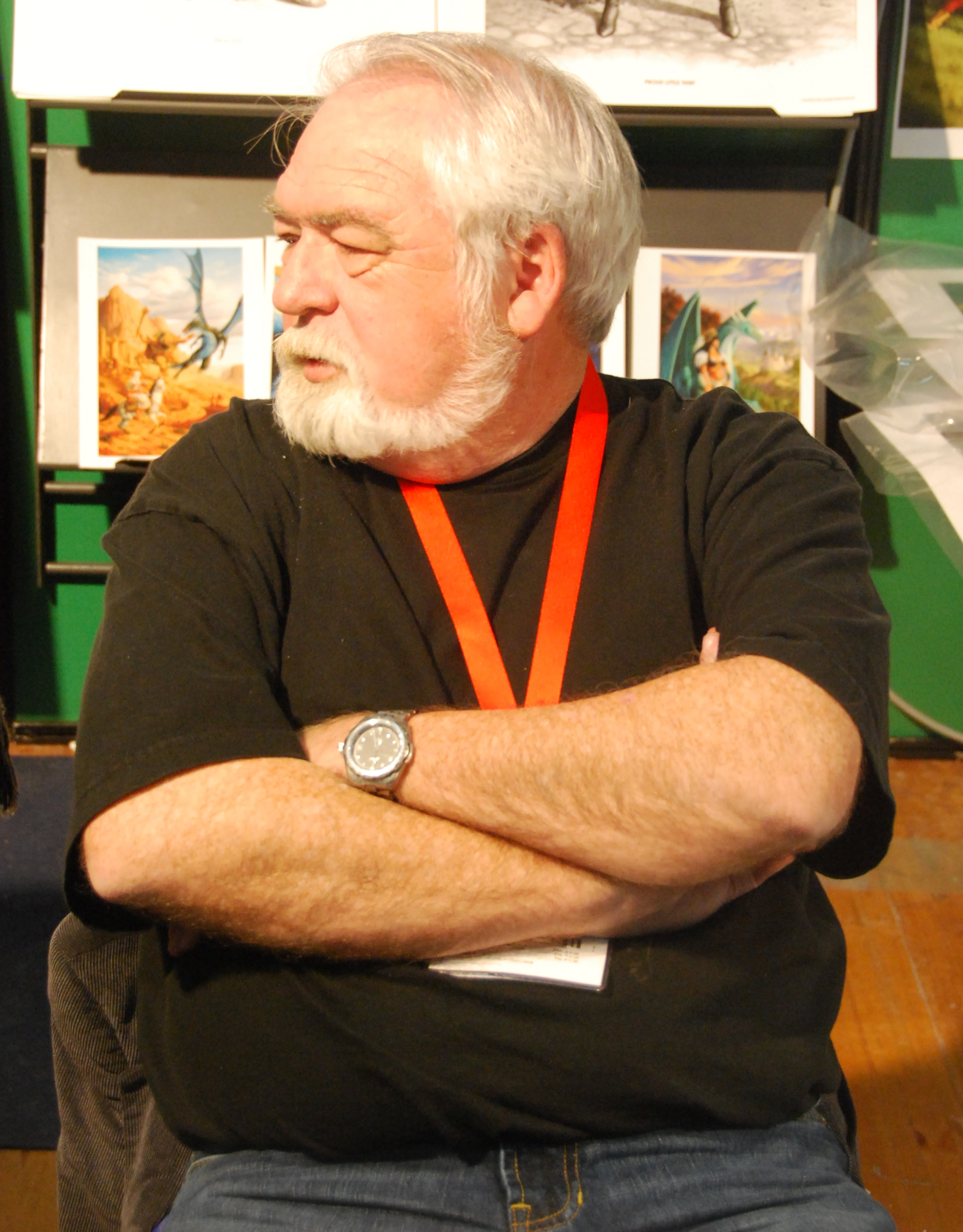 Larry Elmore at Lucca Comics and Games 2008